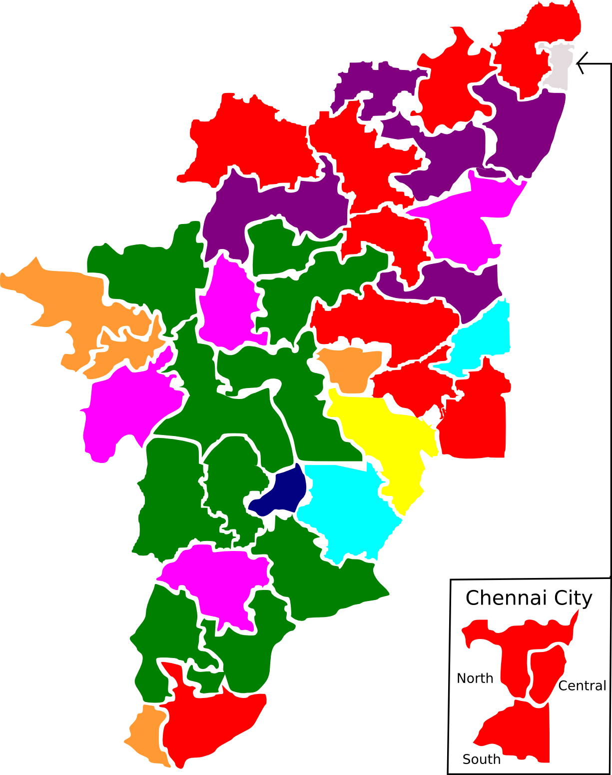 1999 Lok Sabha Election map for Tamil Nadu. Map is based on ECI drawn map. Results are based on ECI website.